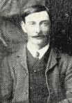 A circa 1907 photograph of Alfred Toogood.